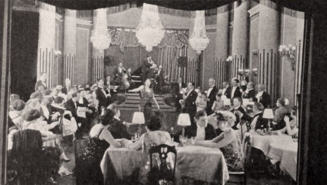 Still from for the American drama film The Broadway Peacock (1922), on page 64 of the February 4, 1922 Exhibitors Herald.